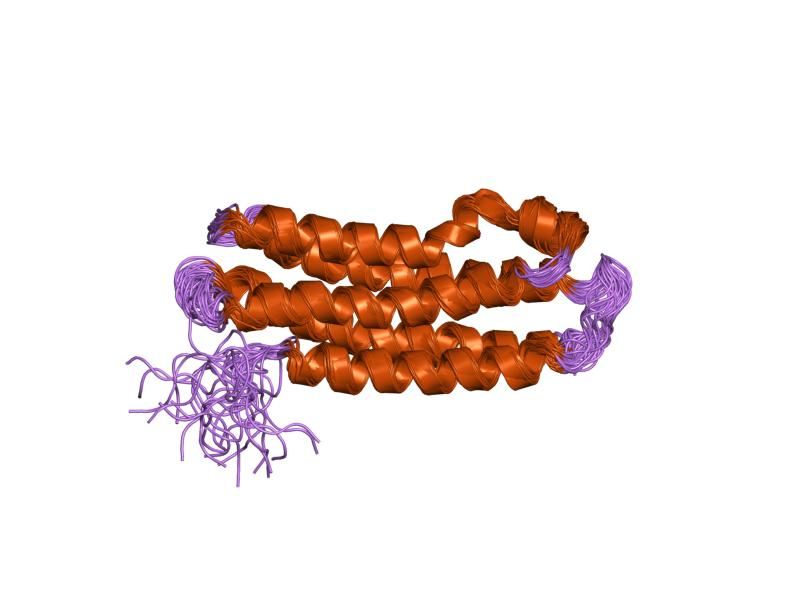 Cartoon representation of the molecular structure of protein registered with 1eq1 code.